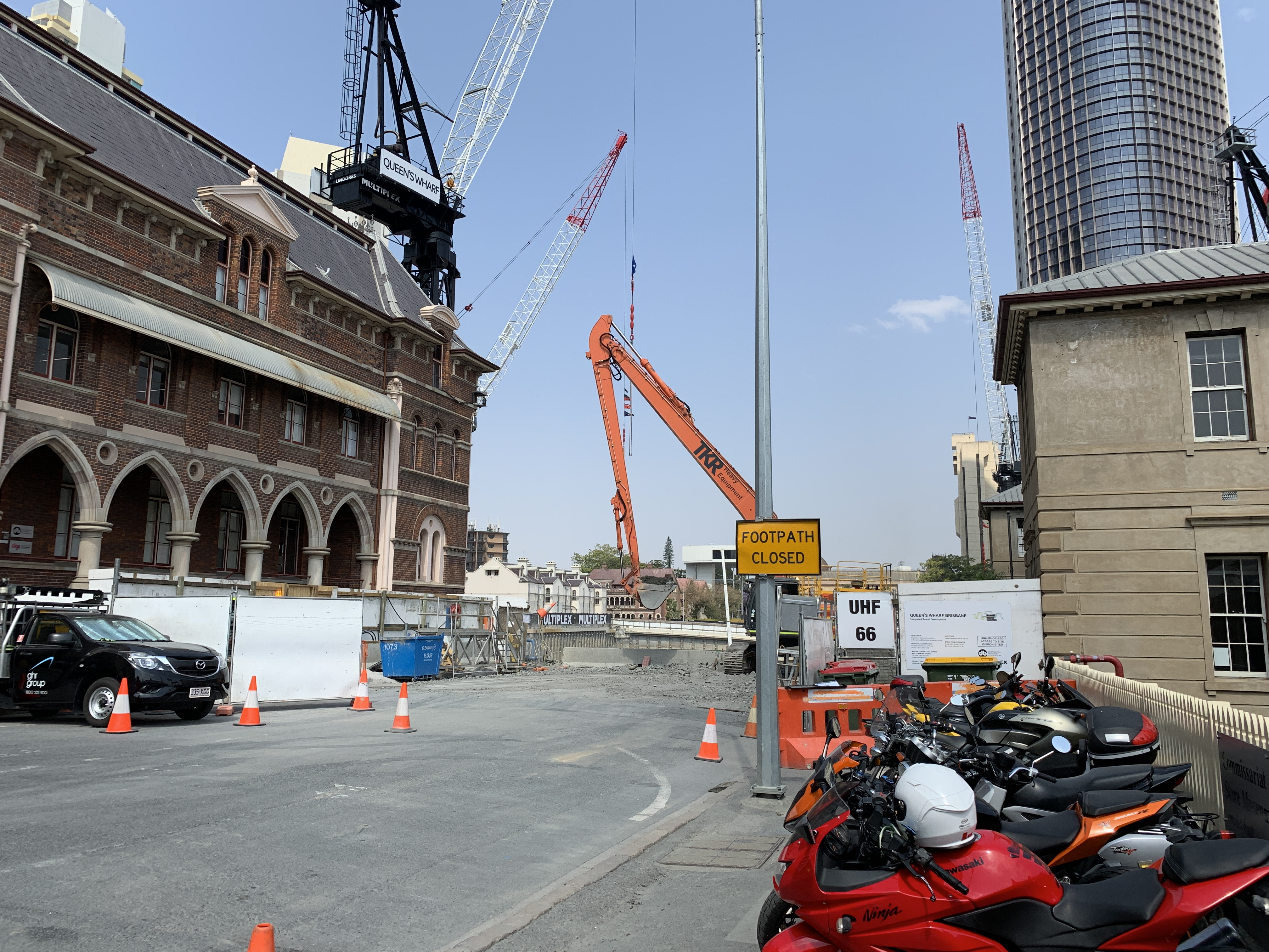 Queens Wharf re-development, William Street, Brisbane, Australia, October 2019